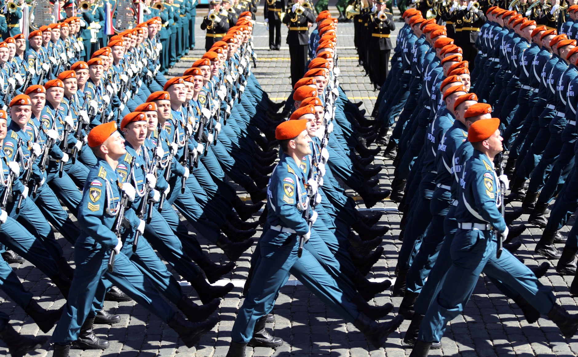 2018 Moscow Victory Day Parade